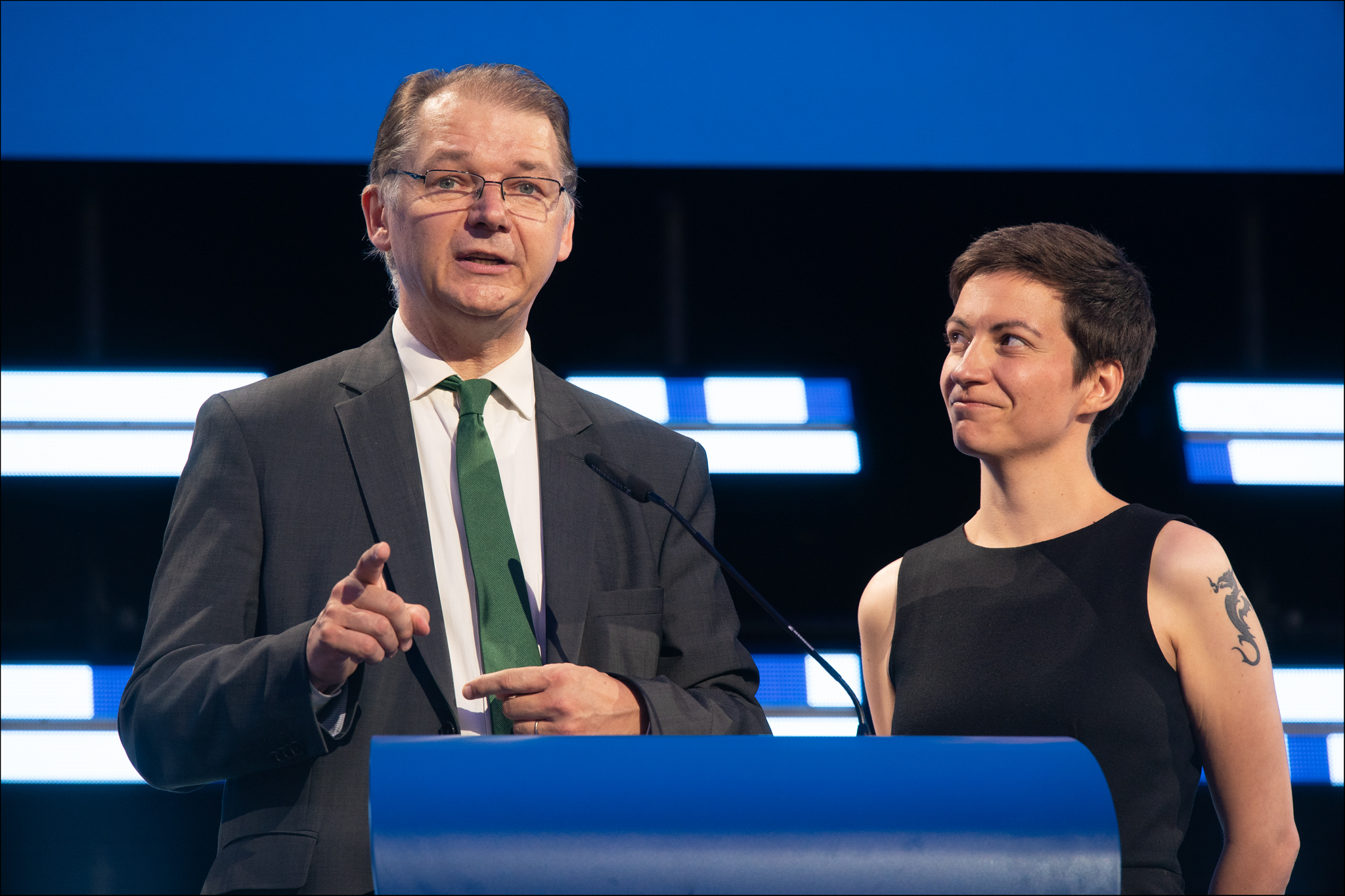 This photo is free to use under Creative Commons license CC-BY-4.0 and must be credited: "CC-BY-4.0: © European Union 2019 – Source: EP". No model release form if applicable. For bigger HR files please contact: webcom-flickr(AT)